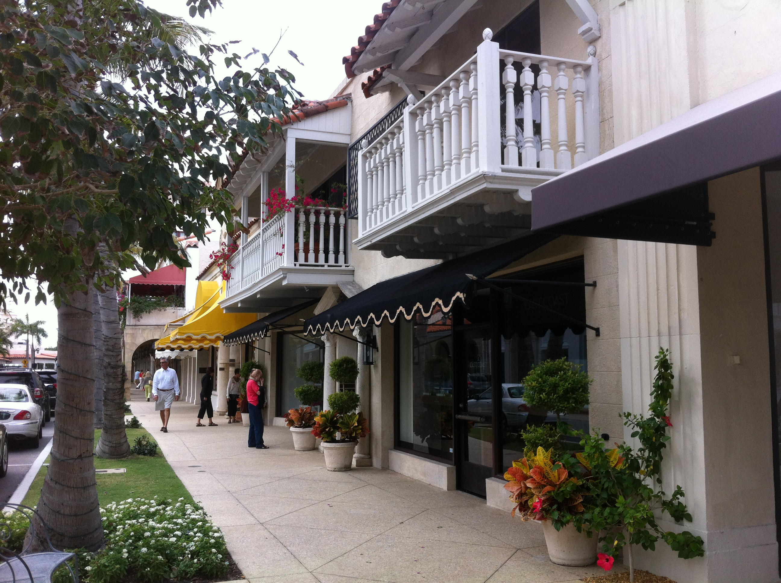 Sidewalk on north side of Worth Avenue in Palm Beach, Florida.